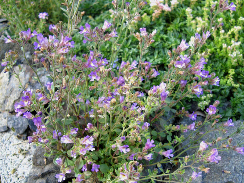 Chaenorhinum origanifolium 'Blue Dream'